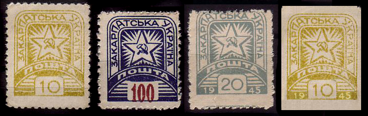 Last stamps of the Carpatho-Ukraine, 1945